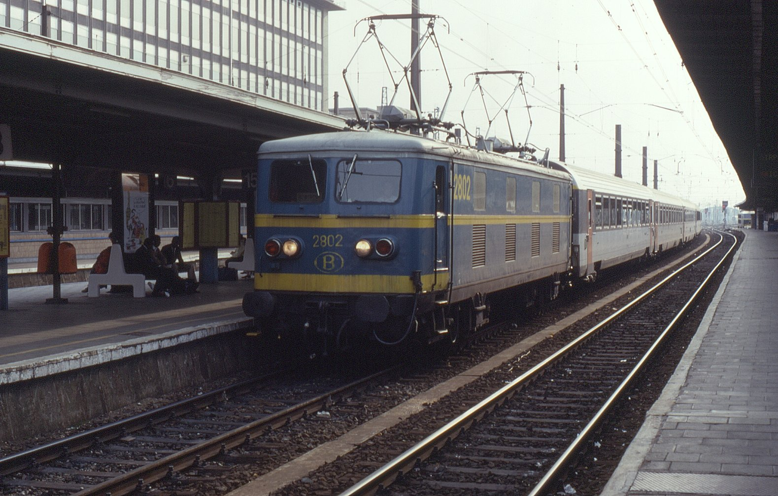 Dating back to 1949, just three of these locos were built. They spent the last few years of their lives moving stock to and from Brussels Midi until the final two were withdrawn in 1996. Seen here on 5 October 1991, 2802 is seen on a a set of SNCF Corail coaches which regularly worked between Paris, Brussels and Amsterdam.